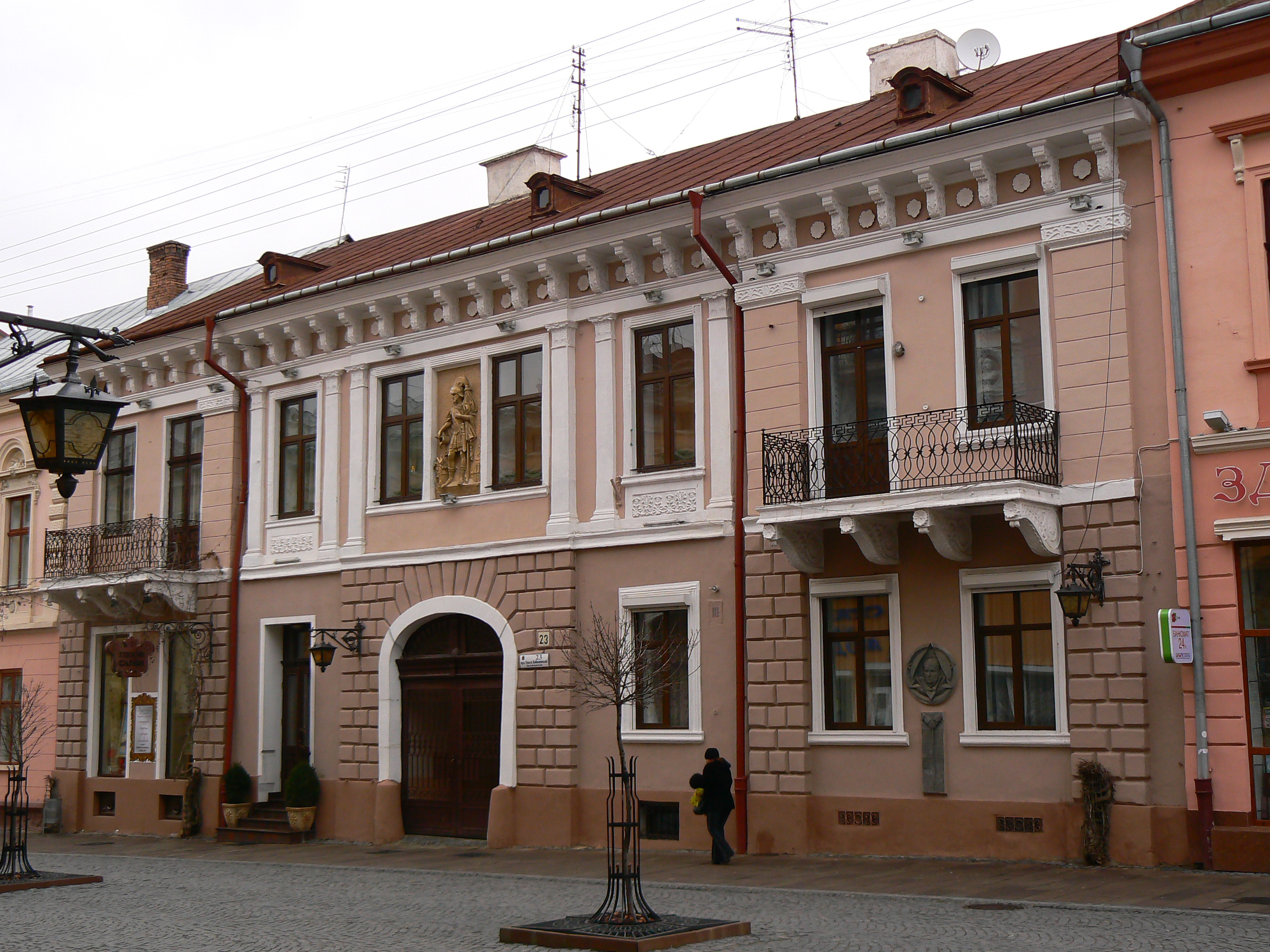 Кобилянської, 23